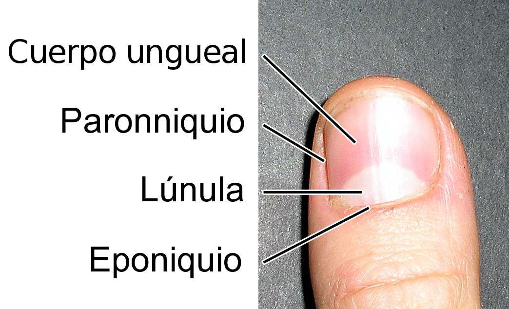 This is a derived version of the file fingernail label.jpg in the english wikipedia, with legends in Spanish. There is another file with the same name in commons but I can not do the renaming